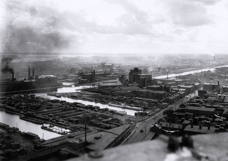 Photograph, Montreal from Street Railway Power House chimney, QC, 1896, Wm. Notman & Son, Silver salts on glass - Gelatin dry plate process - 20 x 25 cm